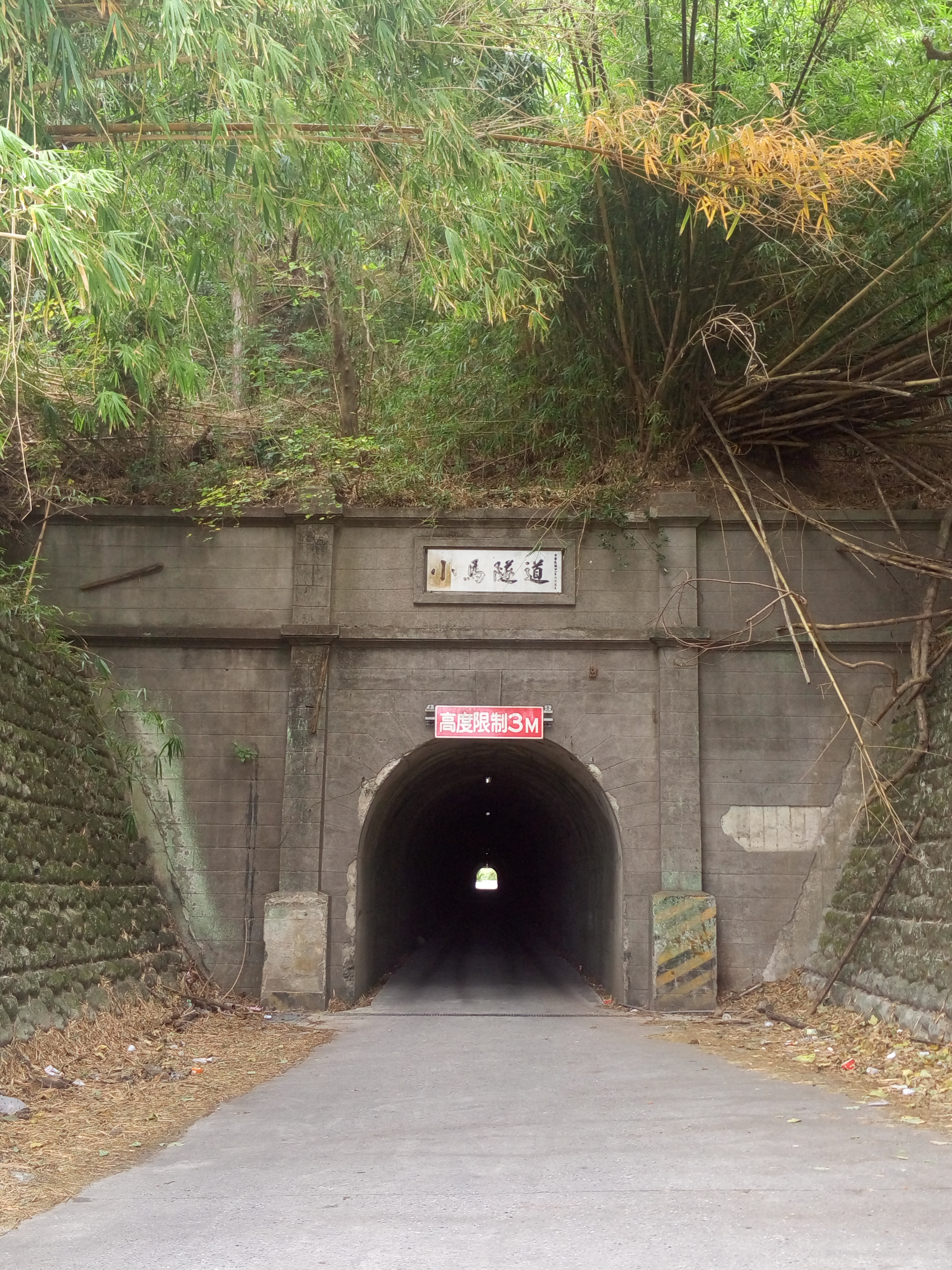 Taiwan(R.O.C) Taitung Chenggong Township Tai-Yuan Tunnel